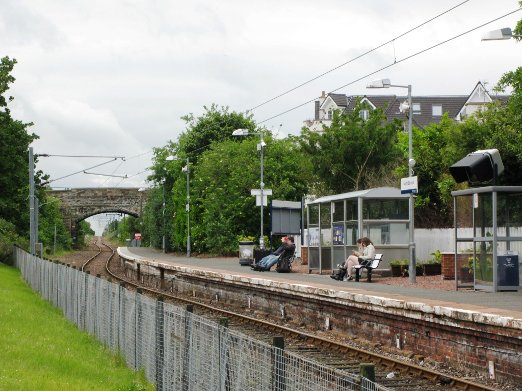 North Berwick railway station is the terminus of a branch line in Scotland, served by electric trains from Edinburgh Waverley.